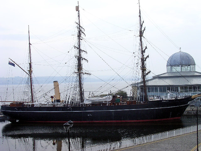 RRS Discovery was built and launched in Dundee in 1901. She took Captain Scott to the Antarctic in the same year.